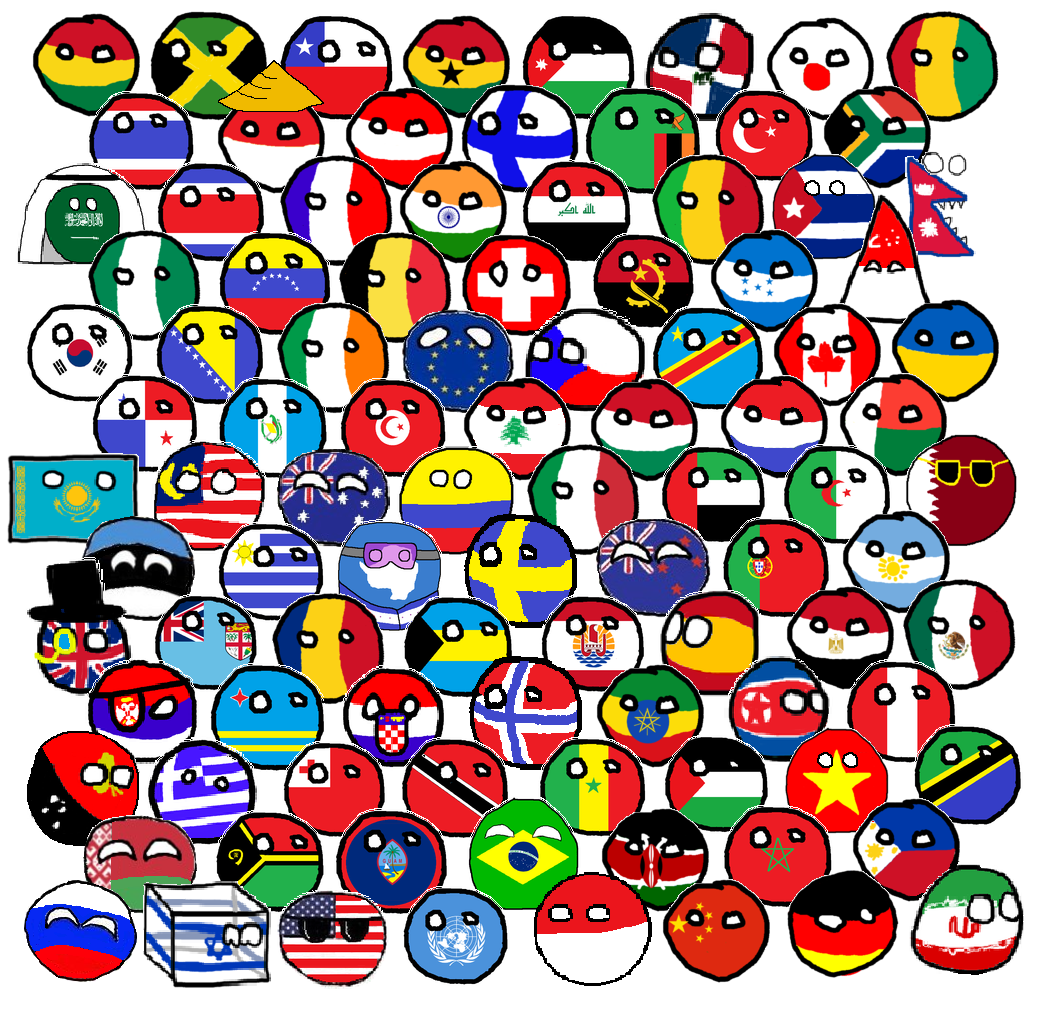 Selection of Polandballs representing several parts of the world. From left to right and top to bottom: Bolivia, Jamaica, Chile, Ghana, Jordan, Dominican Republic, Japan, Guinea, Thailand, Indonesia (a variant), Austria, Finland, Zambia, Turkey, South Africa, Saudi Arabia (one of the most used variants), Costa Rica, France, India, Iraq, Mali, Cuba, Nepal, Nigeria, Venezuela, Belgium, Switzerland, Angola, Honduras, Singapore, South Korea, Bosnia-Herzegovina, Ireland, European Union, Czech Republic, Democratic Republic of the Congo, Canada, Ukraine, Panama, Guatemala, Tunisia, Lebanon, Hungary, Netherlands, Madagascar, Kazakhstan, Malaysia, Australia, Colombia, Italy, United Arab Emirates, Algeria, Qatar, Estonia, Uruguay, Antarctica (Bartram's flag proposal), Sweden, New Zealand, Portugal, Argentina, Great Britain, Fiji, Romania, Bahamas, French Polynesia, Spain, Egypt, Mexico, Serbia, Aruba, Croatia, Norway, Ethiopia, North Korea, Peru, Papua New Guinea, Greece, Tonga, Trinidad and Tobago, Senegal, Palestine, Vietnam, Tanzania, Belarus, Vanuatu, Guam, Brazil, Kenya, Morocco, Phillipines, Russia, Israel, United States, United Nations, Poland, China, Germany, Iran.